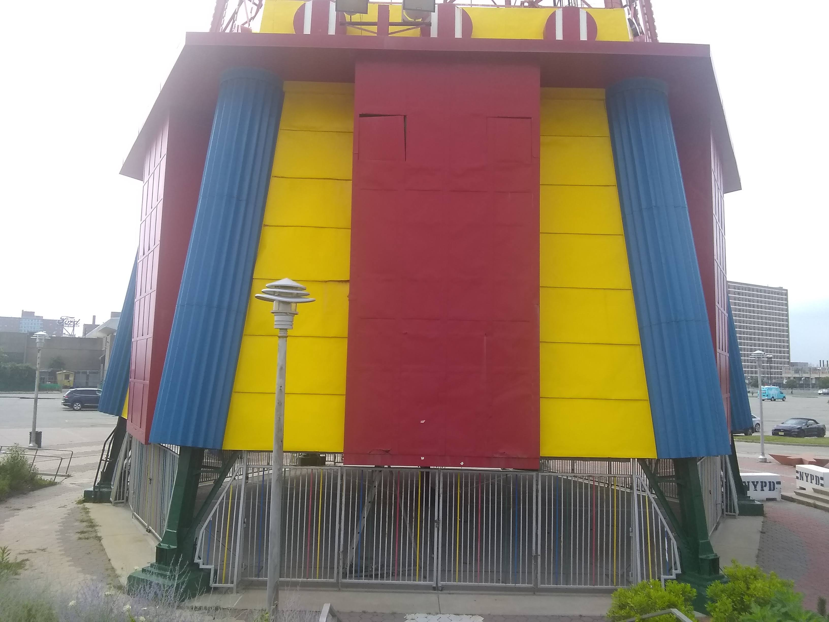 Coney Island in Brooklyn, New York, seen in July 2019. Base of Parachute Jump